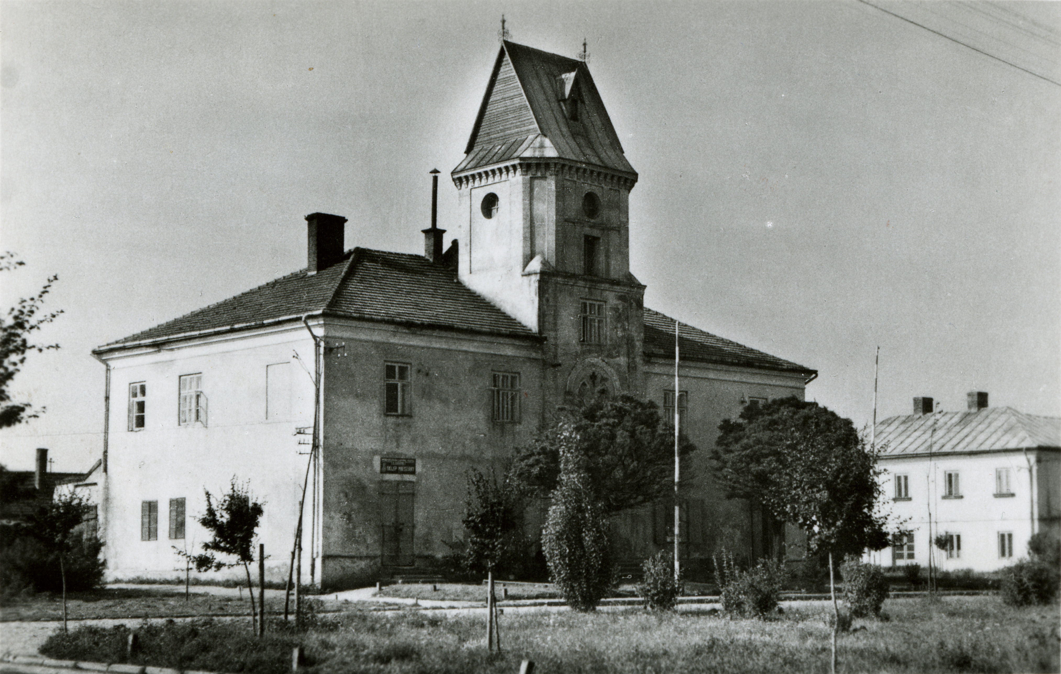 Photo of Town Hall from 1957, Sędziszów Małopolski, Poland